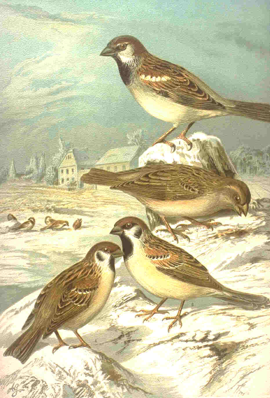 Passer species from Naumann, Naturgeschichte der Vogel Mitteleuropas 1905. A pair of House Sparrows above, and Tree Sparrows below